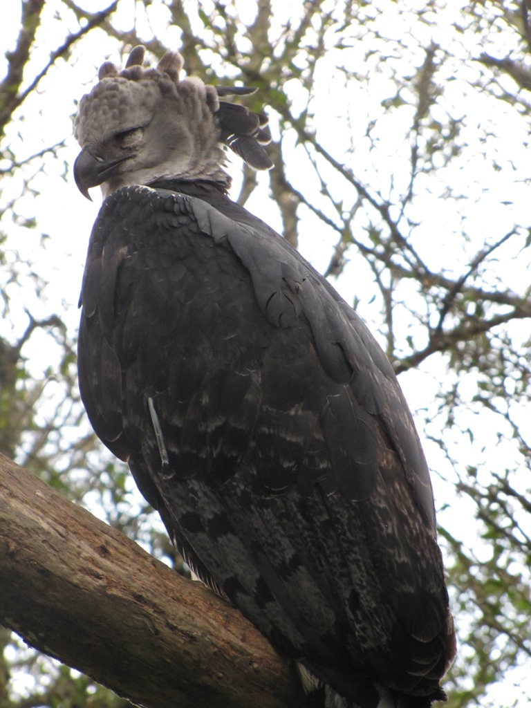 A Harpy Eagle at Curitiba Zoo, Parana, Brazil.